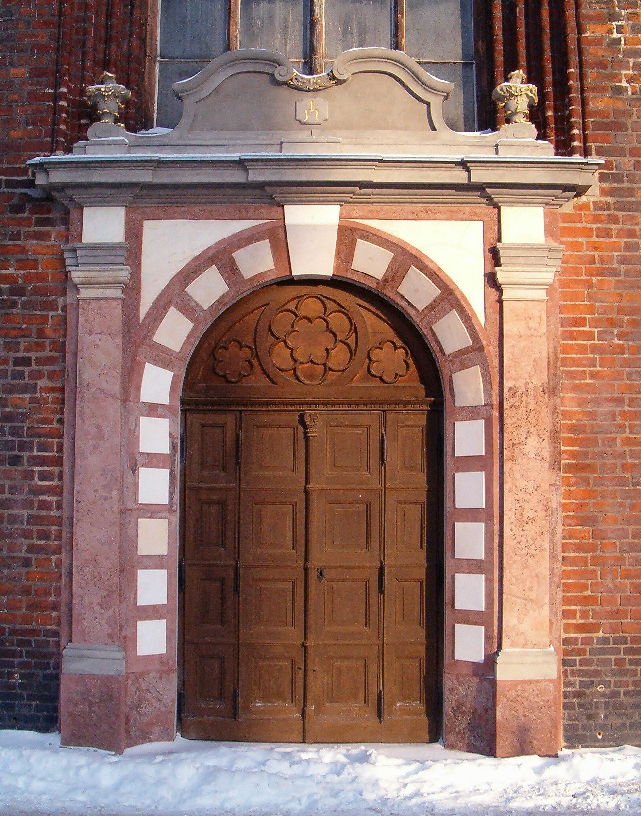 Gate of St. Nicholas church in Gdańsk (Poland)